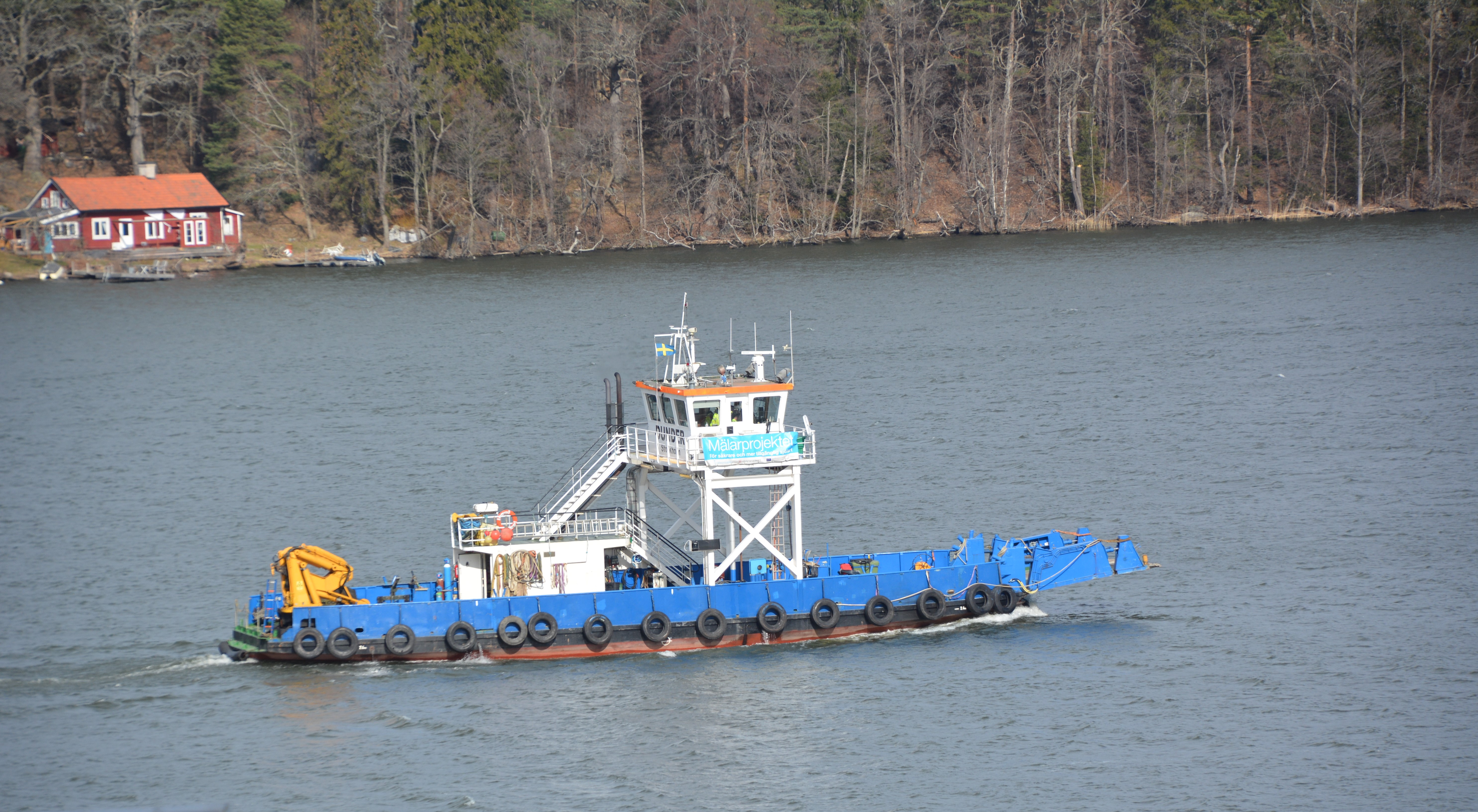 M/S Dunder